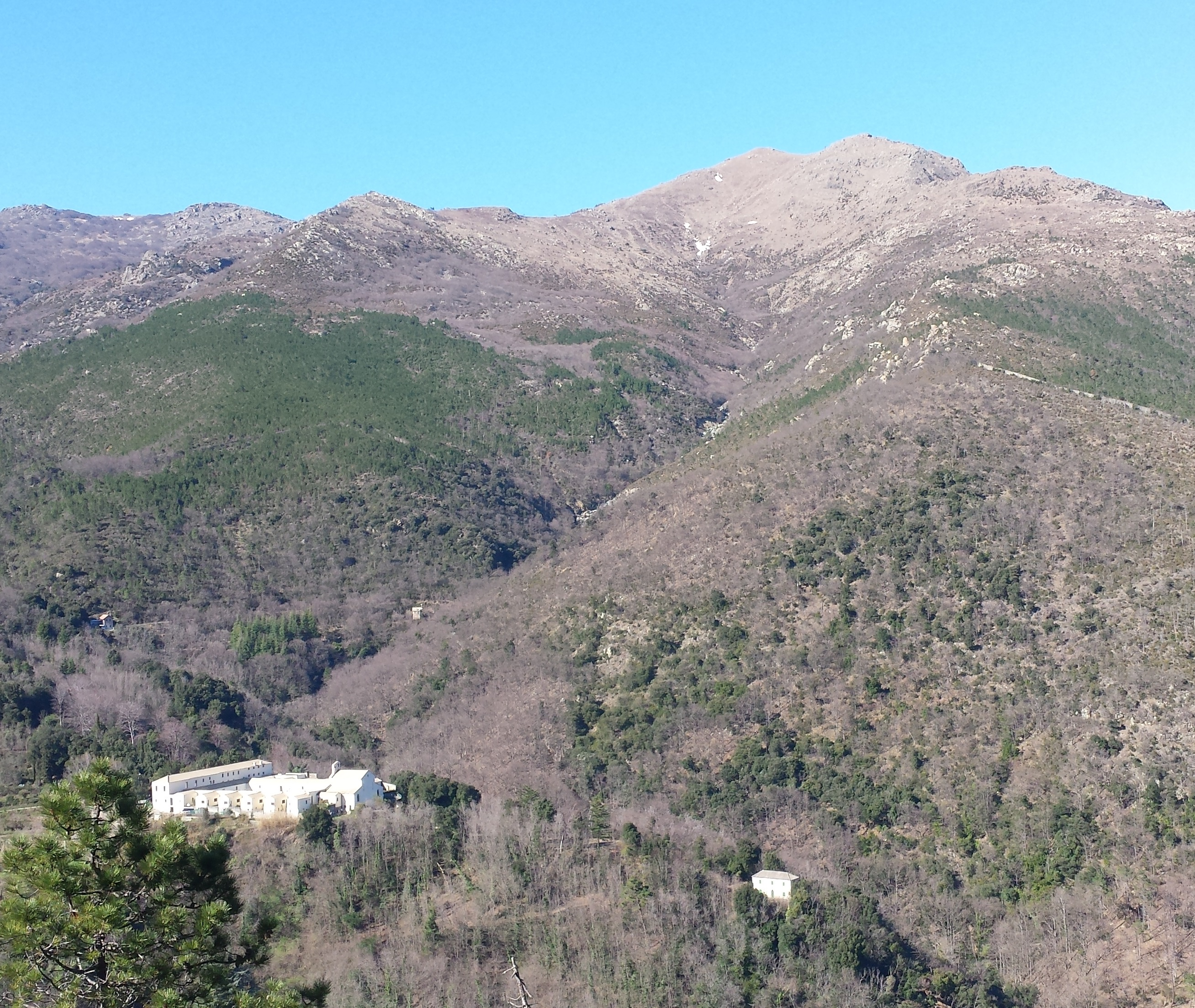 Il Monte Sciguelo visto da sud sovrasta l'Eremo del Deserto